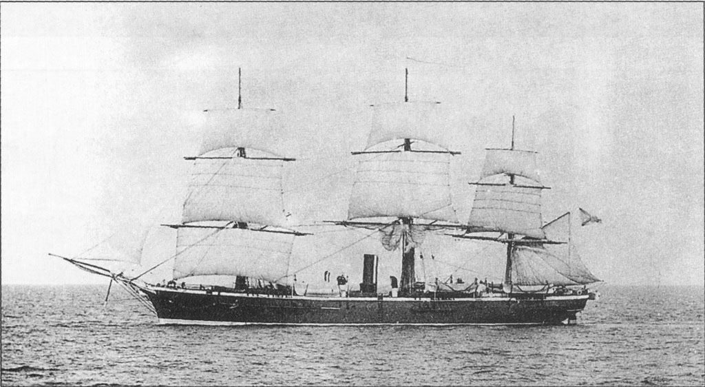 Imperial Russian corvett Vityz'.